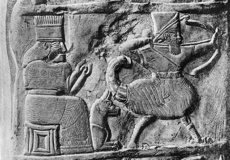 Kudurru of Nabû-kudurrī-uṣur granting LAK-ti Marduk freedom from taxation for services rendered during his invasion of Elam, BM 90858.